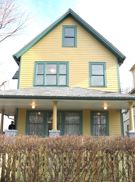 The front of the house where the movie A Christmas story was filmed in Cuyahoga County in Cleveland Ohio